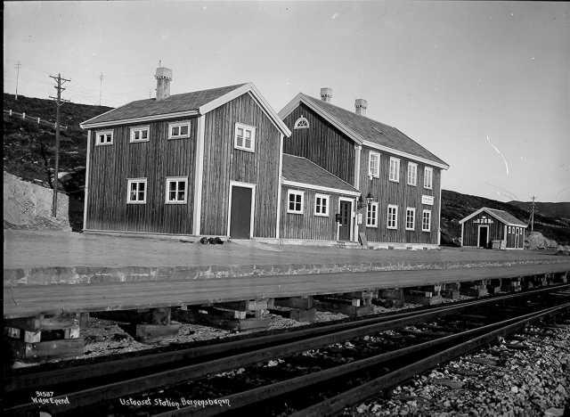 Ustadoset railway station on Bergensbanen, Norway.